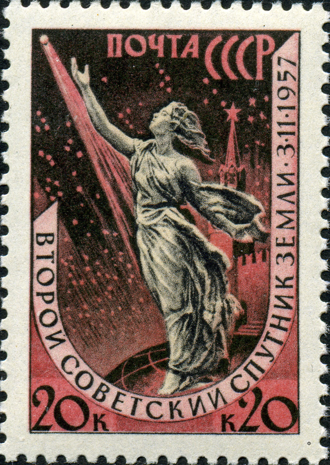 Postage stamp of the Soviet Union, Sputnik-2, 1957, 20 kopecks, Scott#2032